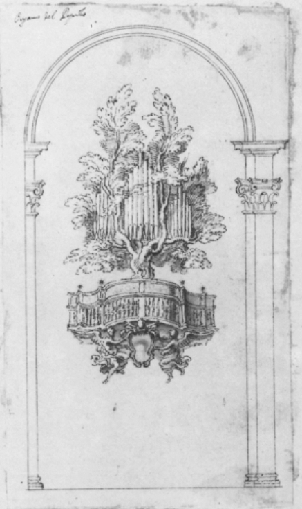 The second design for the organ-case of Santa Maria del Popolo, Rome. The drawing was made in Gian Lorenzo Bernini's workshop c. 1655-57, it has been preserved in the Vatican Library.